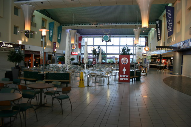 Donington Park Services